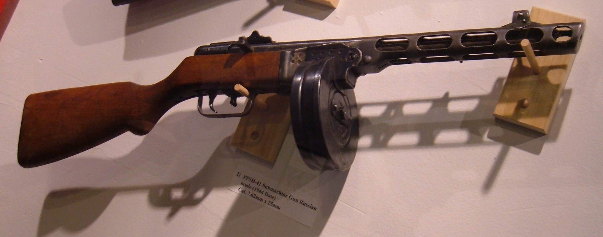 A Soviet PPSh-41 dated 1944 on display at the Sgt. Richard Penry Medal of Honor Memorial Military Museum in Petaluma, California.